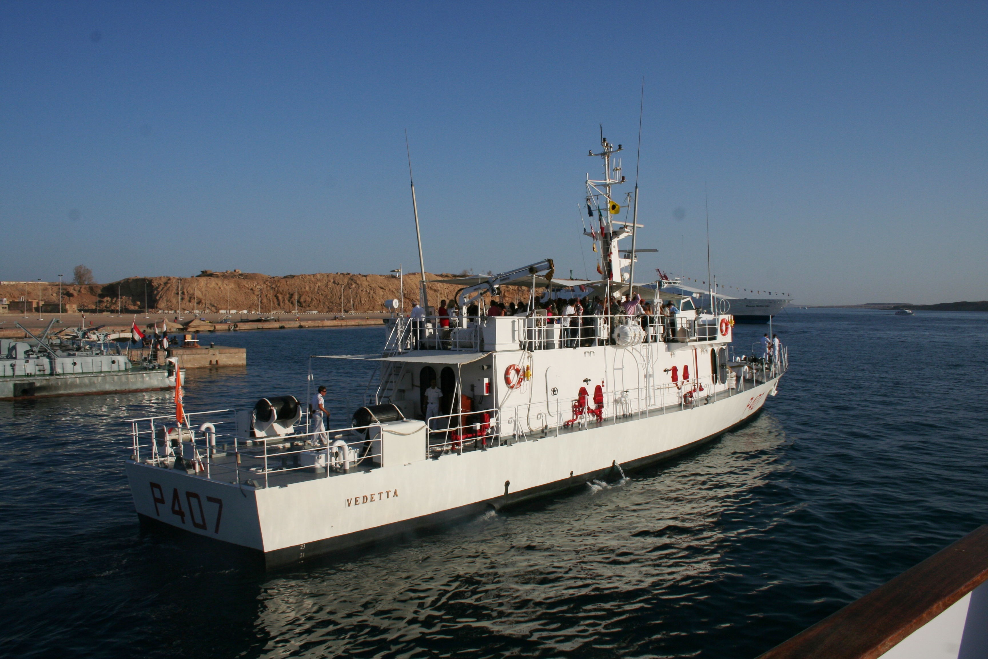 Italian naval vessel of the Esploratore Class